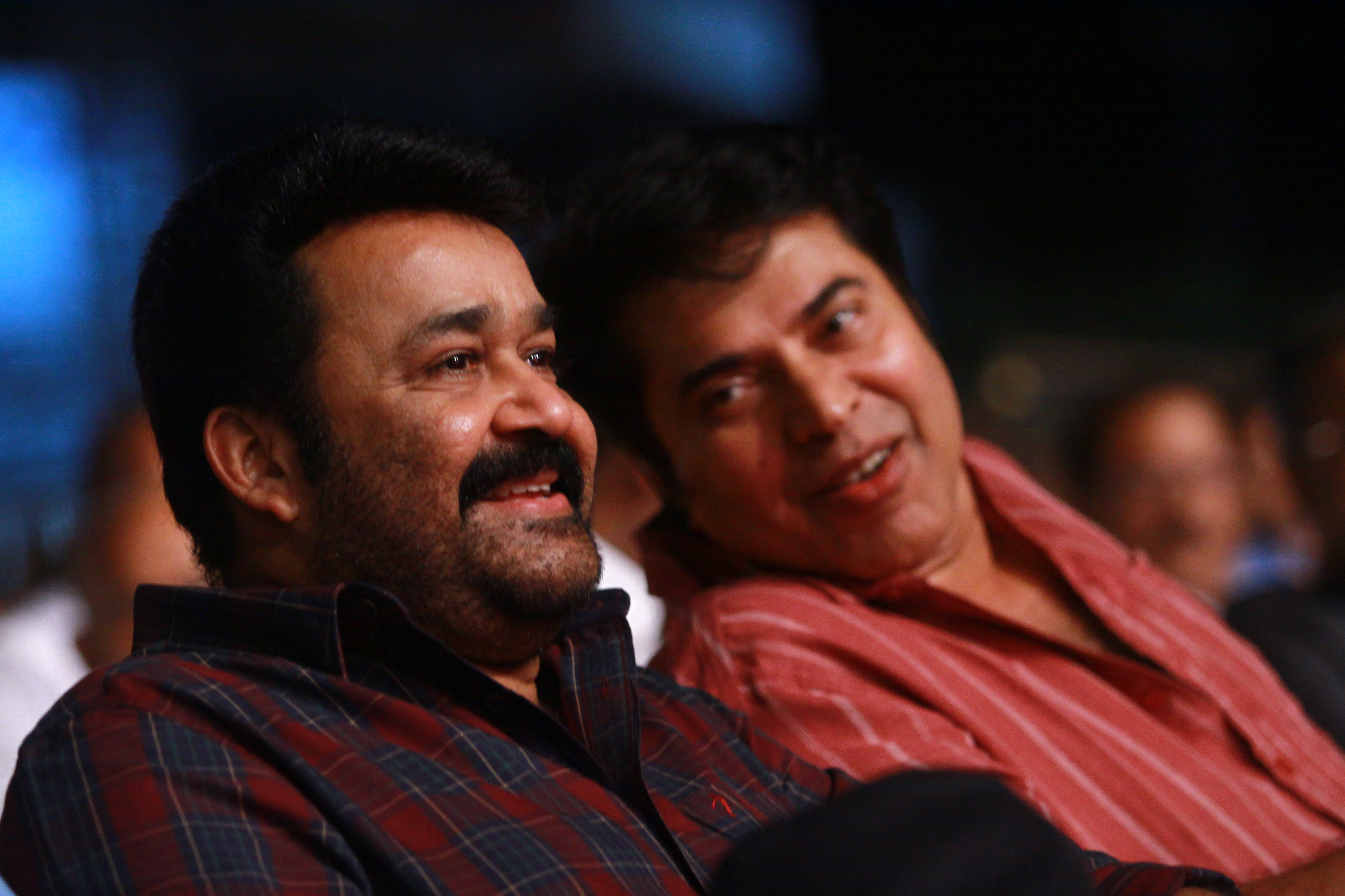 Two great Indian Actors